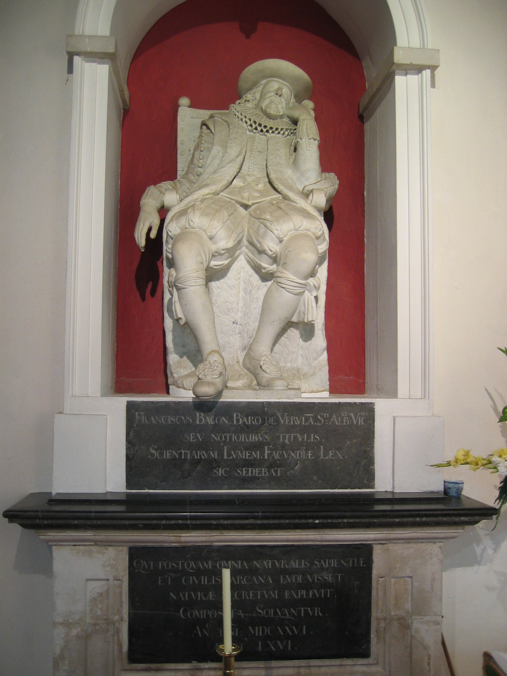 Memorial to Francis Bacon at his burial place, St Michael's church in St Albans, UK. The statue was commissioned after Bacon's death by his Secretary Sir Thomas Meautys. A copy can be found in the chapel at Trinity College, Cambridge